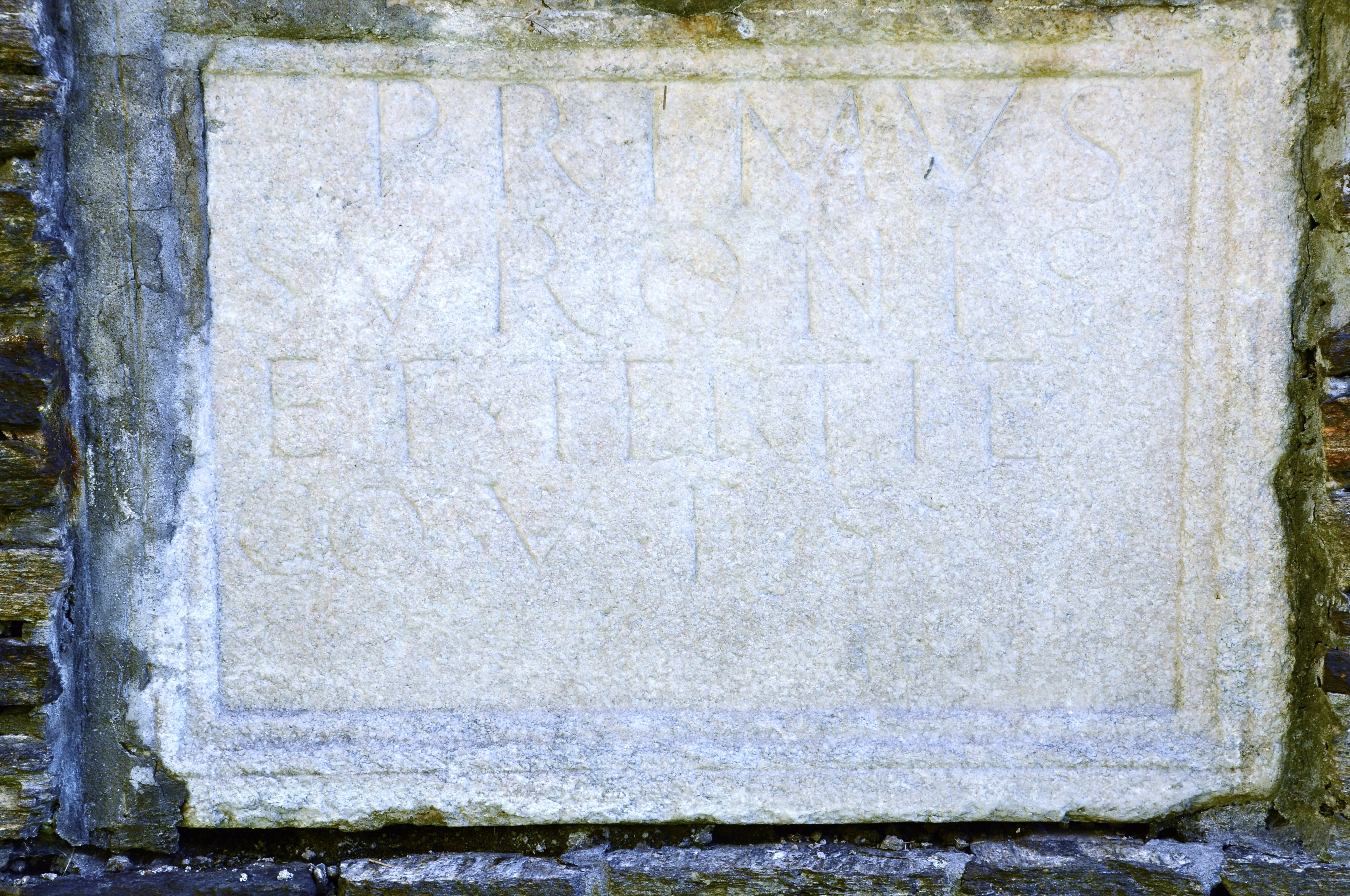 Roman plaque on the old cemetery wall on the Schulstrasse #2, municipality Sankt Georgen im Lavanttal, district Wolfsberg, Carinthia / Austria / EU